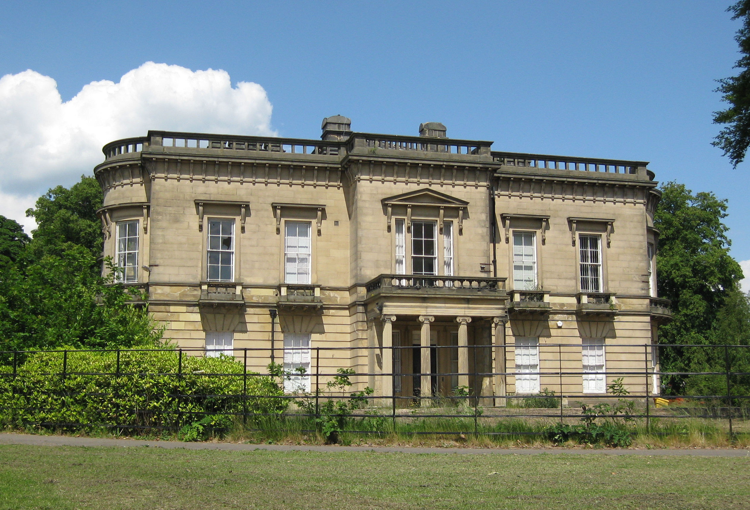 Meanwood Hall, Meanwood Park, Woodlea Drive, Leeds. Former Meanwood Park Hospital